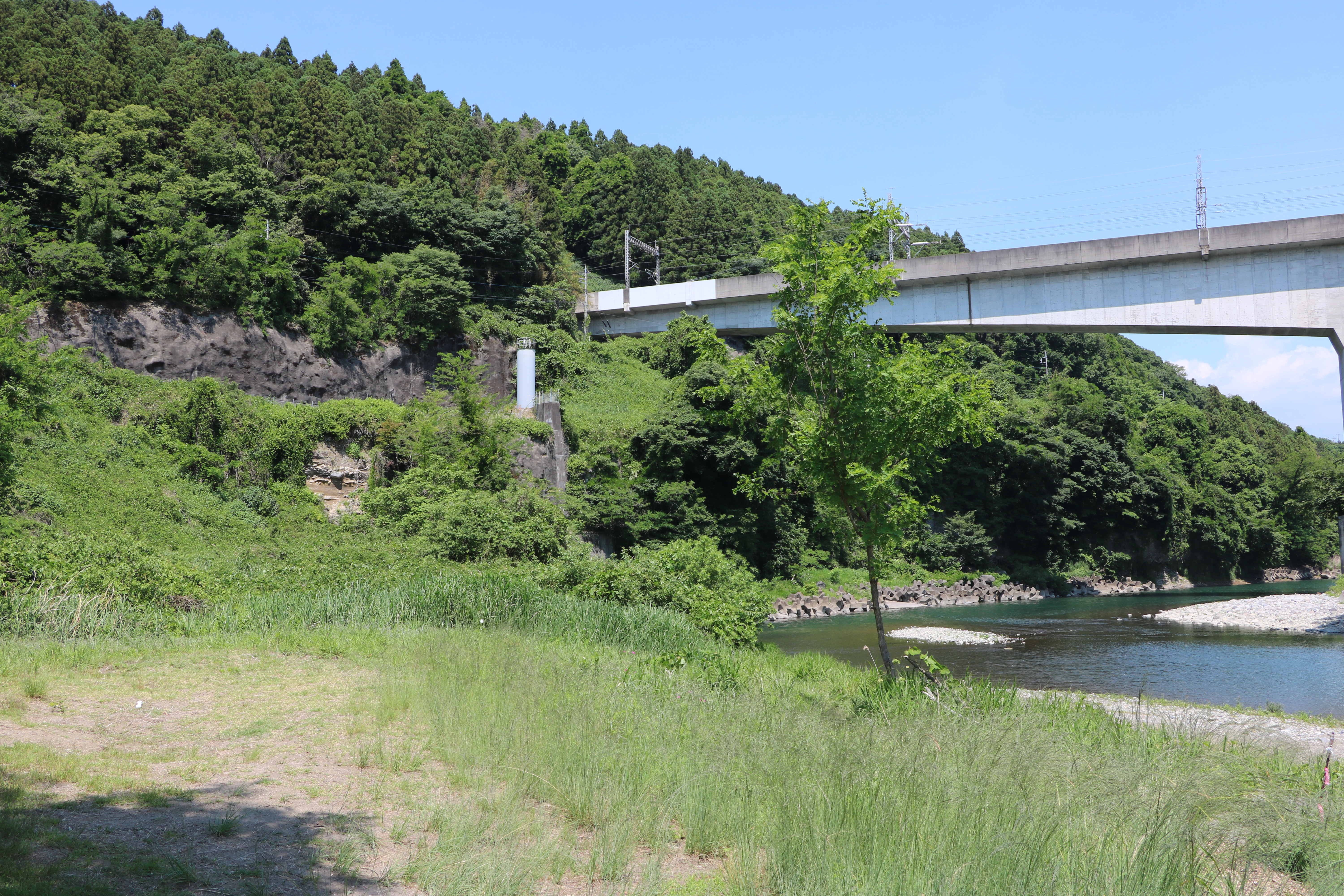 Water discharge tower of Nakayama Tunnel South Exit